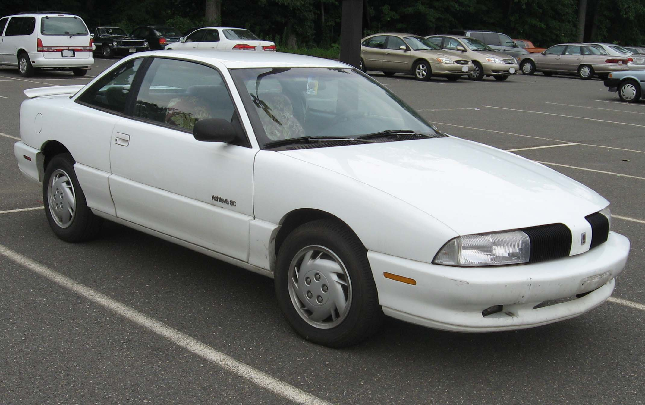 1992-1998 Oldsmobile Achieva photographed in USA.